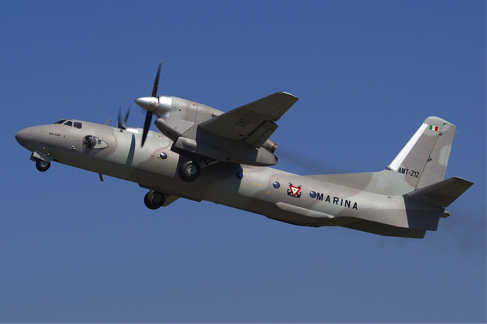 Mexican Navy Antonov An-32B takes off from Kyiv Zhulyany Airport